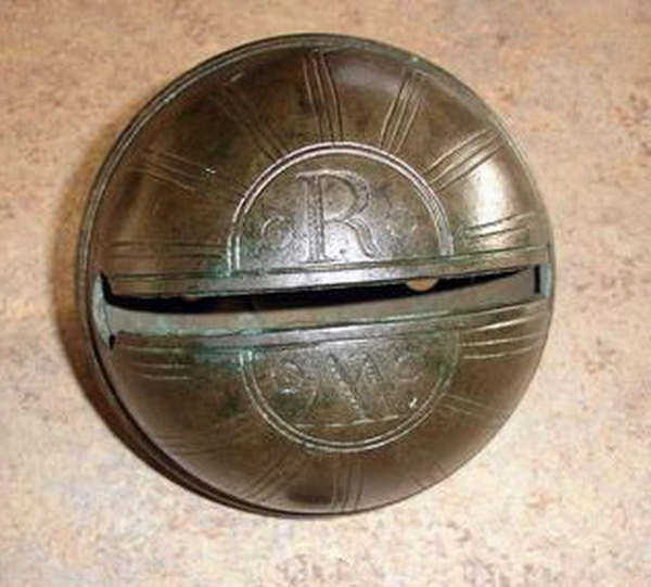 Crotal bell cast by the Robert Wells bell foundry of Aldbourne, Wiltshire - Robert I Wells (active 1760–81), Robert II Wells (active 1781–93) and James Wells (active 1792–1826) - 158mm across